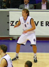 Dutch professional basketball player Aron Royé in October 2010, playing for GasTerra Flames in the Martiniplaza, Groningen.